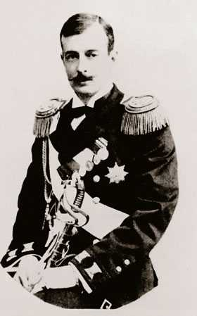 Grand Duke Cyril Vladimirovich of Russia